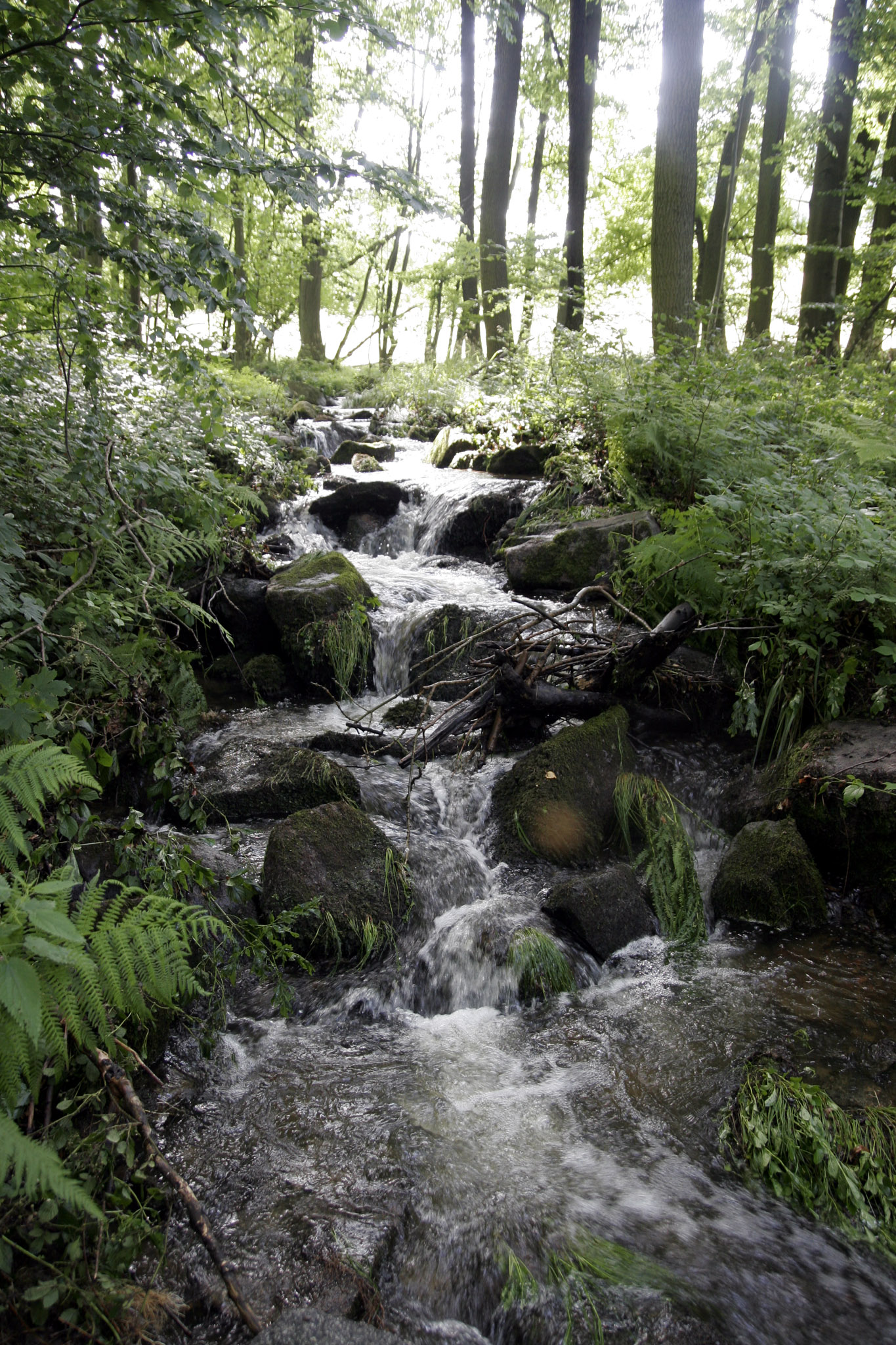 The Lauter creek in South-Hesse, close to its well.